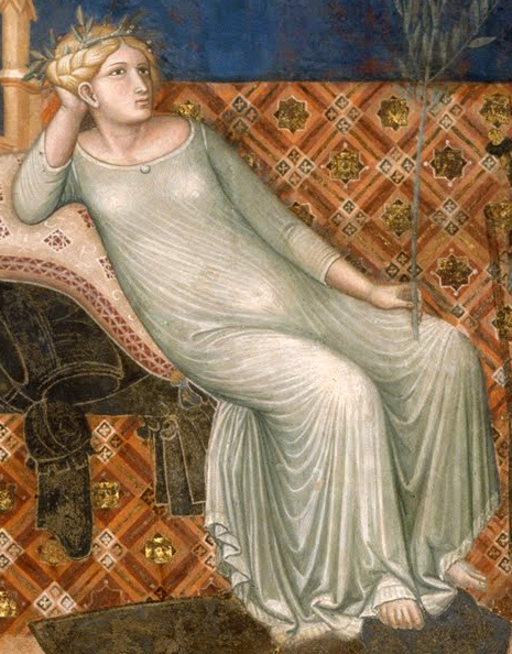 Allegory of the Good Government (detail)